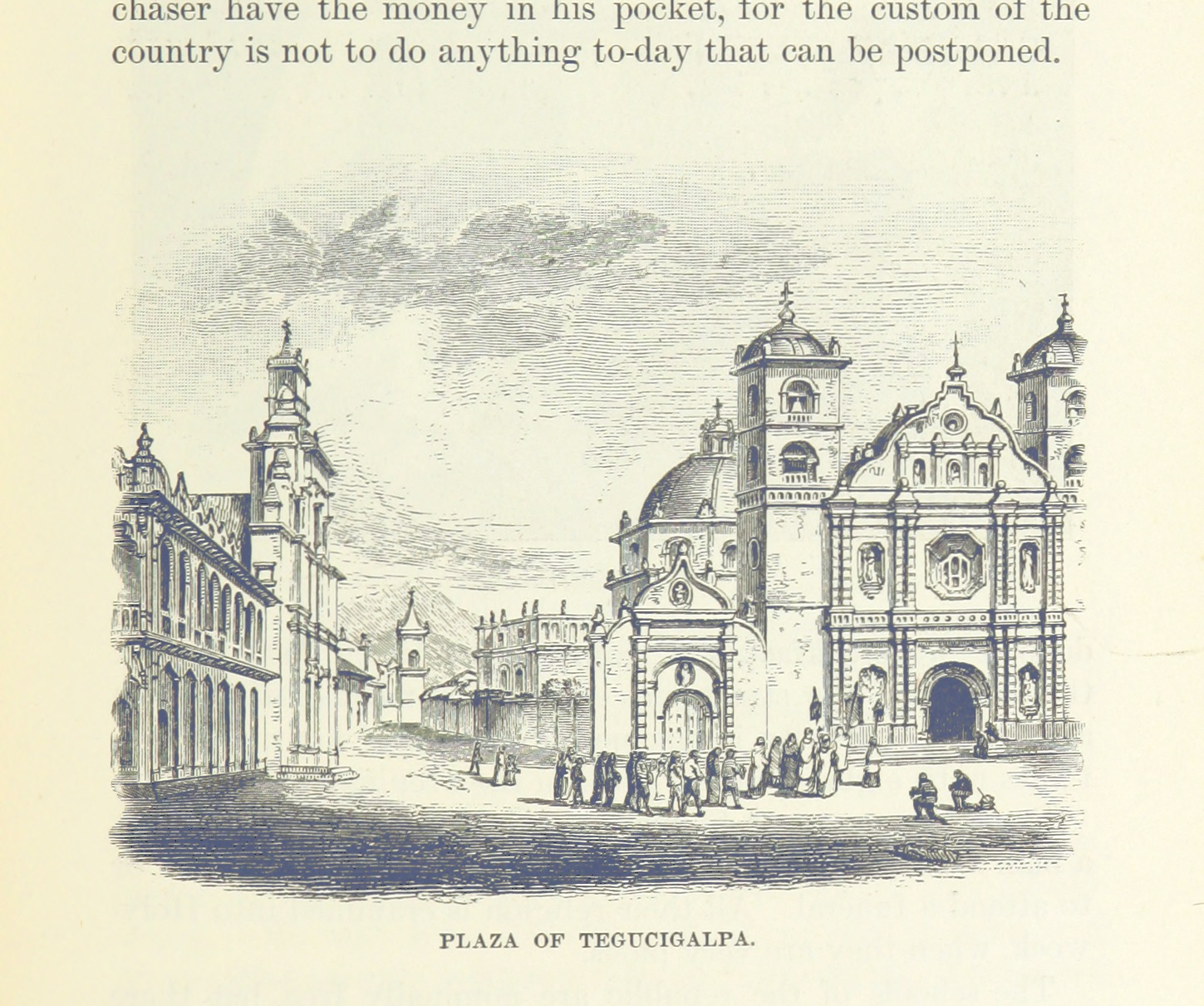 Image taken from: Title: "The Capitals of Spanish America ... Illustrated" Author: CURTIS, William Eleroy. Shelfmark: "British Library HMNTS 10481.ee.22." Page: 157 Place of Publishing: New York Date of Publishing: 1888 Publisher: Harper & Bros. Issuance: monographic Identifier: 000841123 Explore: Find this item in the British Library catalogue, 'Explore'. Download the PDF for this book (volume: 0) Image found on book scan 157 (NB not necessarily a page number) Download the OCR-derived text for this volume: (plain text) or (json) Click here to see all the illustrations in this book and click here to browse other illustrations published in books in the same year. Order a higher quality version from here.